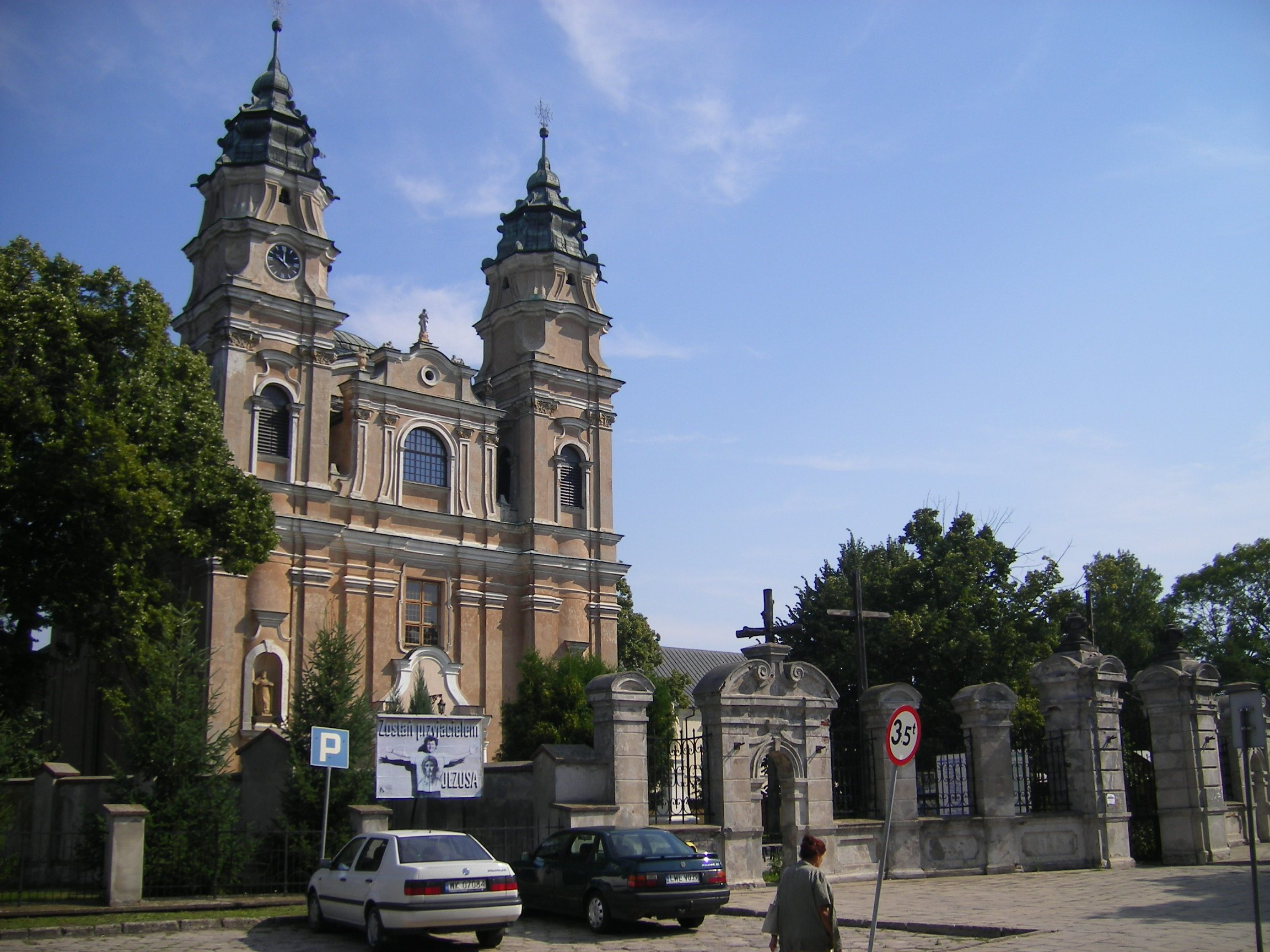 Włodawa, Saint Louis catholic church